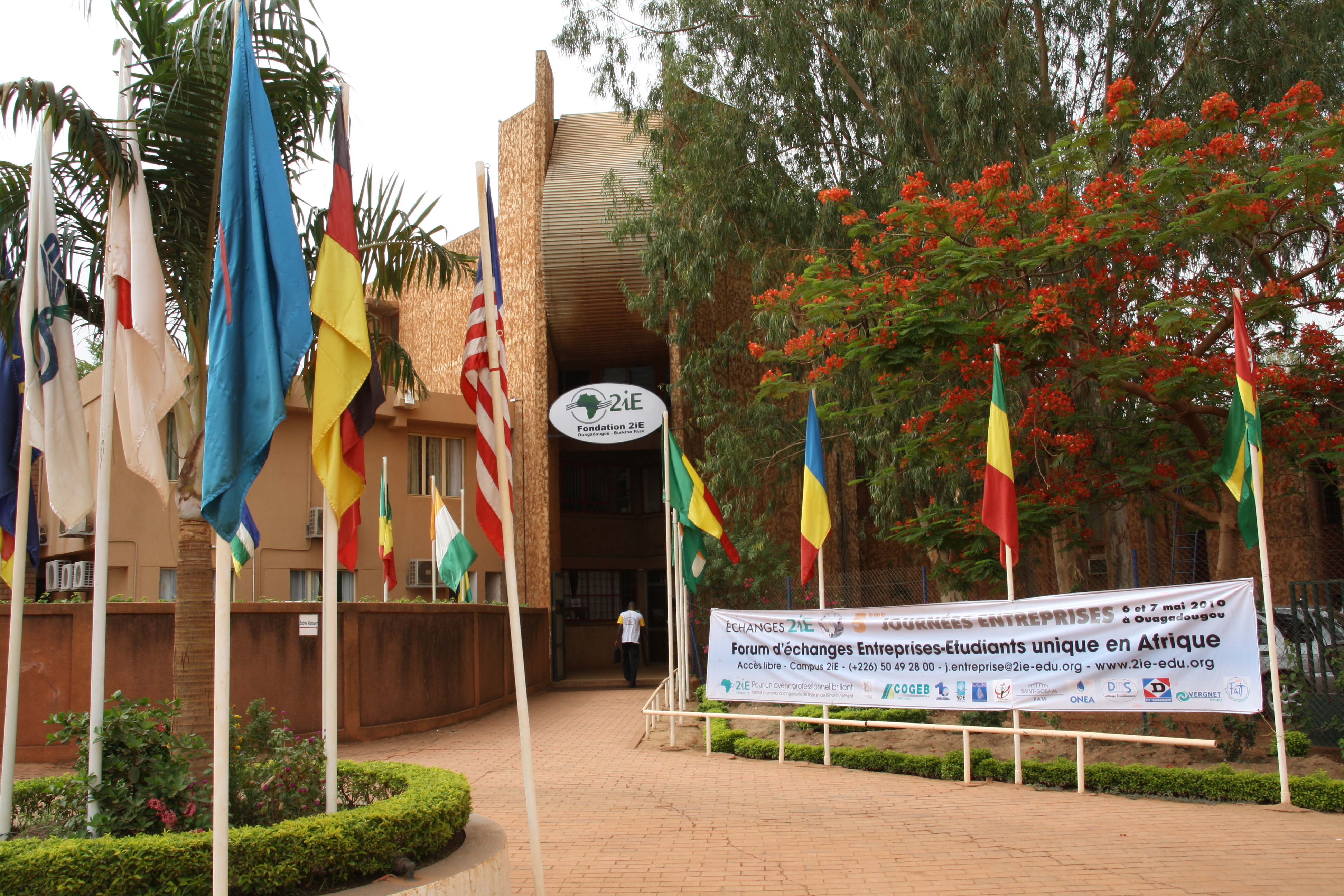 entrée 2ie ouaga